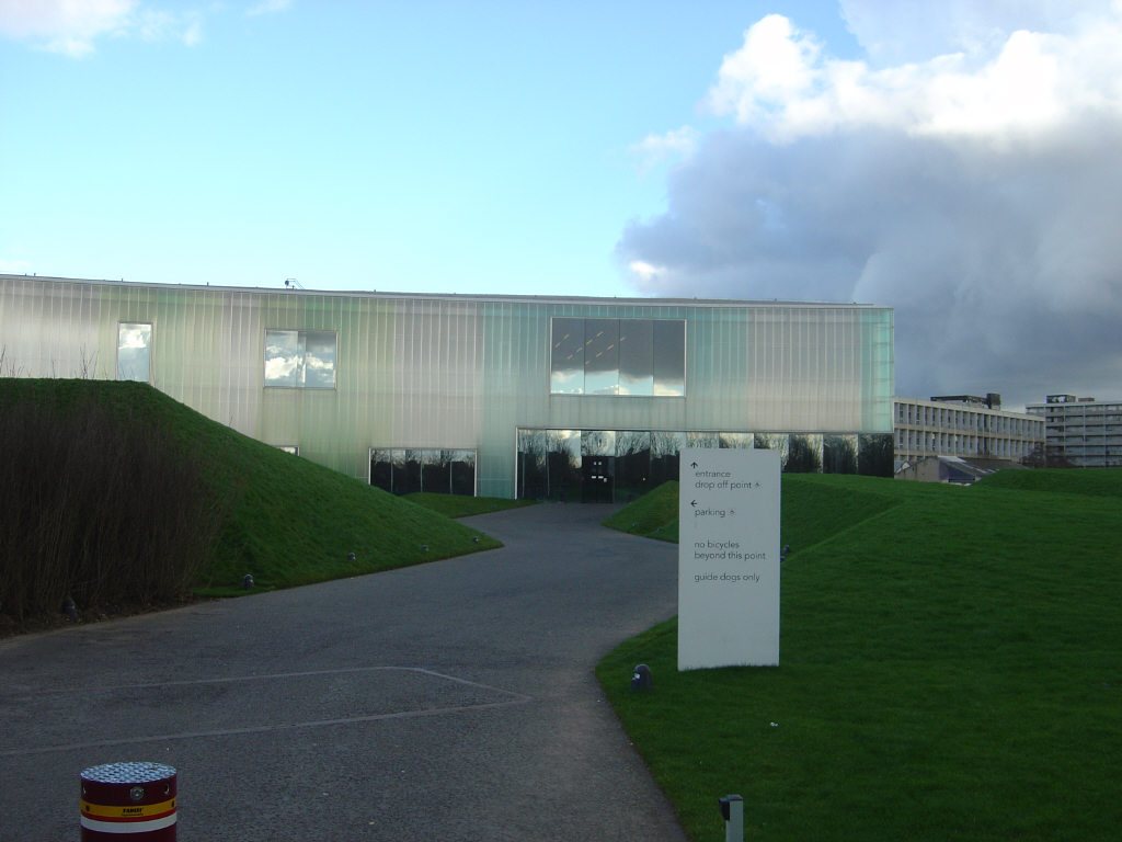 Laban Dance Centre, Deptford, London. Richard James Lander - 7th February 2004